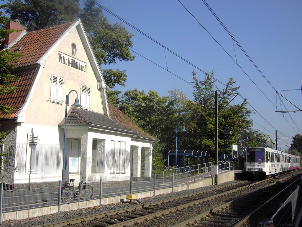 Urban railway stop Vilich-Müldorf of the Siegburger Bahn in Bonn-Beuel.